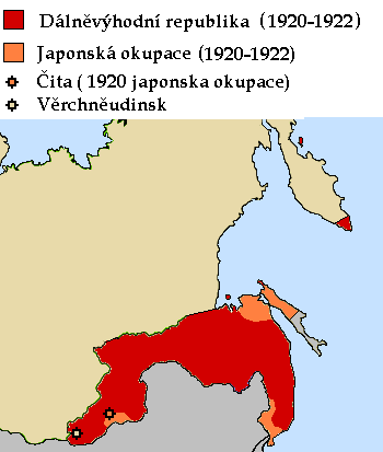 ==Map of Russia with merged subjects (01.03.2008, last merger Chita Oblast+Agin-Buryat Autonomous Okrug to form Zabaykalsky Krai.) Colour tagged by type. Republics Krais (territories) Oblasts (provinces) federal cities Autonomous oblasts (provinces) Autonomous okrugs (districts) *There is also a layer for the different Federal districts (seen as thicker line on map)